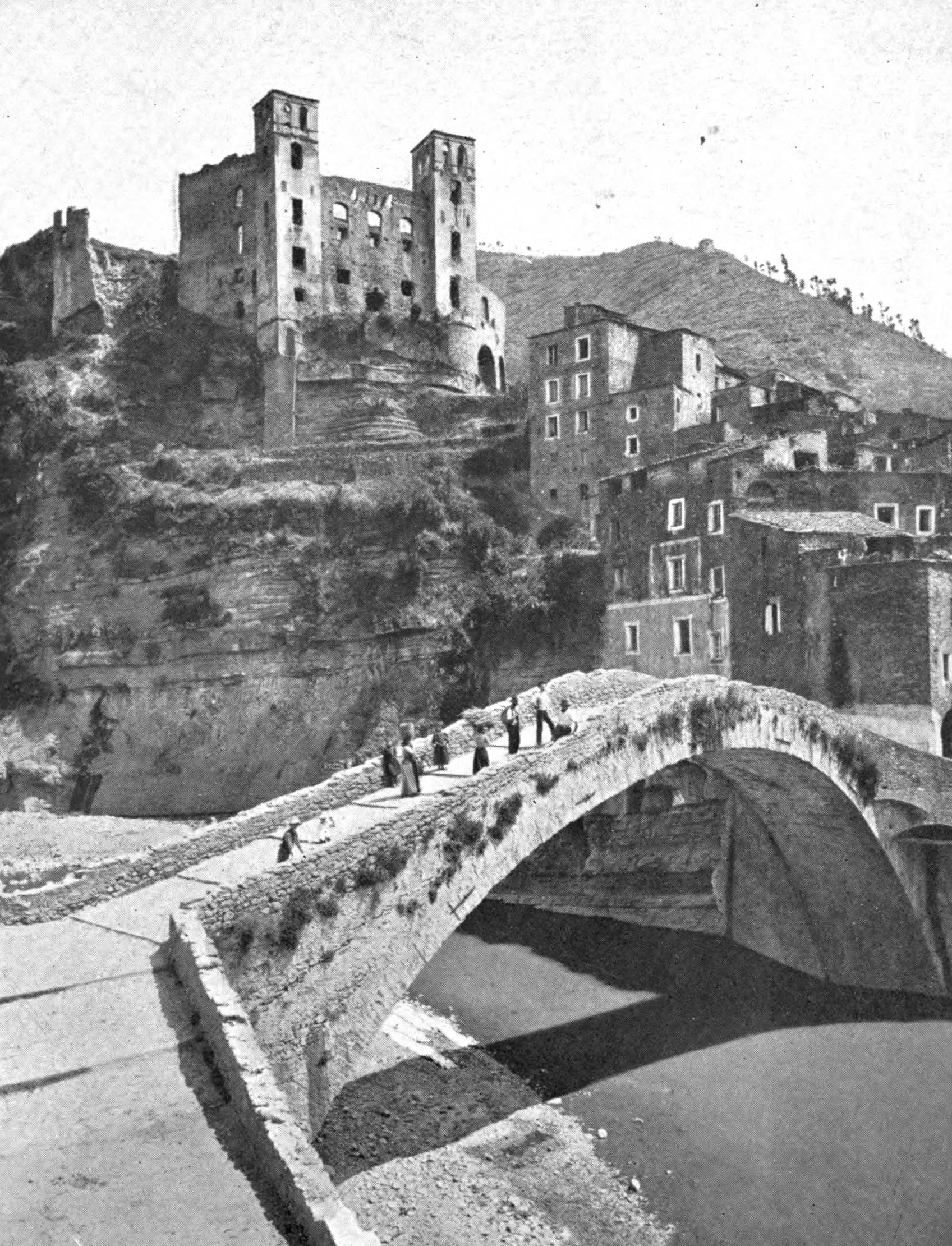 Image from a scanned version of the book "A Book of the Riviera" by Sabine Baring-Gould from Image has been cropped and sepia tone removed.